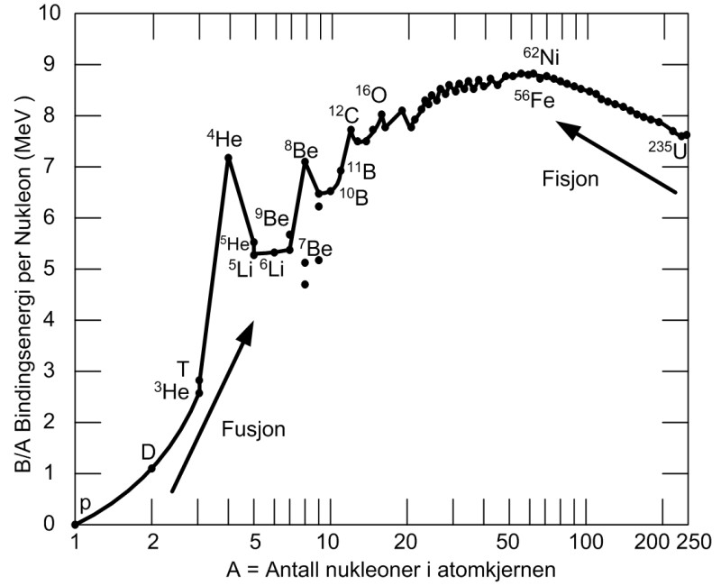 Binding Energy per Nucleon, overview, some common isotopes identidied. Norwegian text